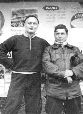 Photograph of Reijo Frank (1931–) and Heikki Leppik as motocycle racers.